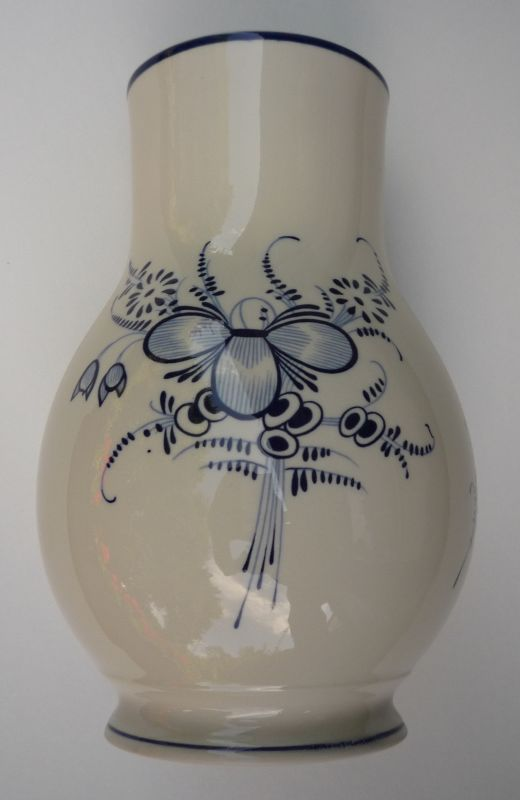 Villeroy & Boch: Vase decor "Old Luxemburg"